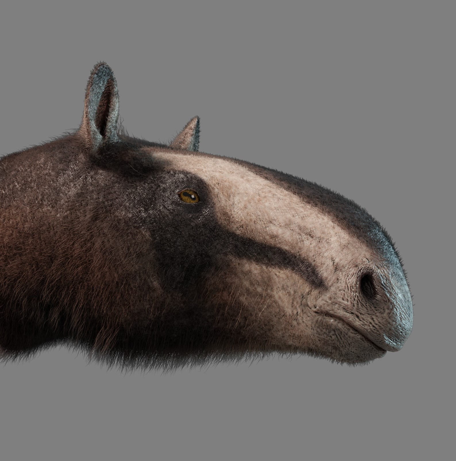 Reconstruction of the head of M.elatus